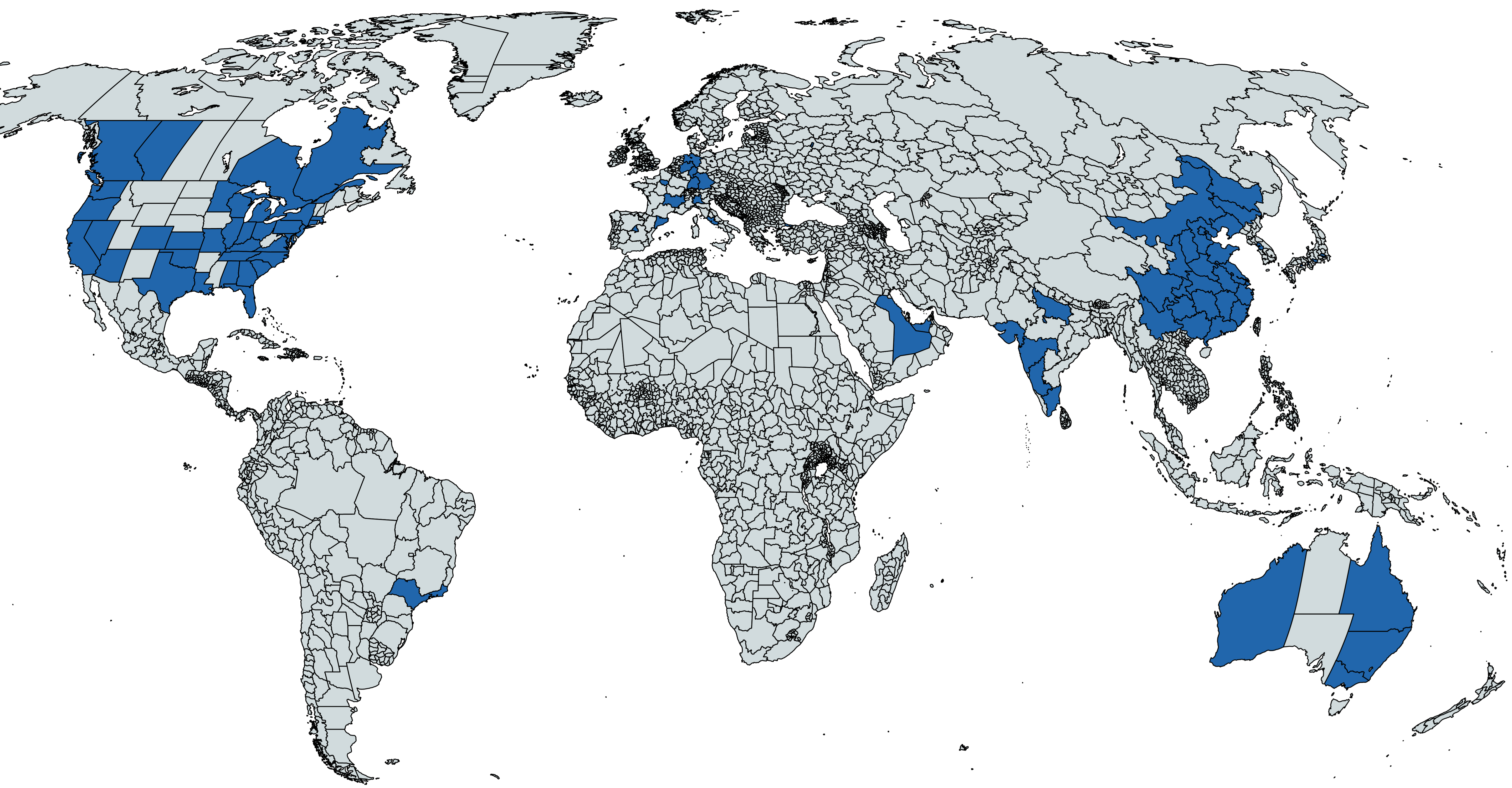 Country subdivisions by GDP over 200 billion USD